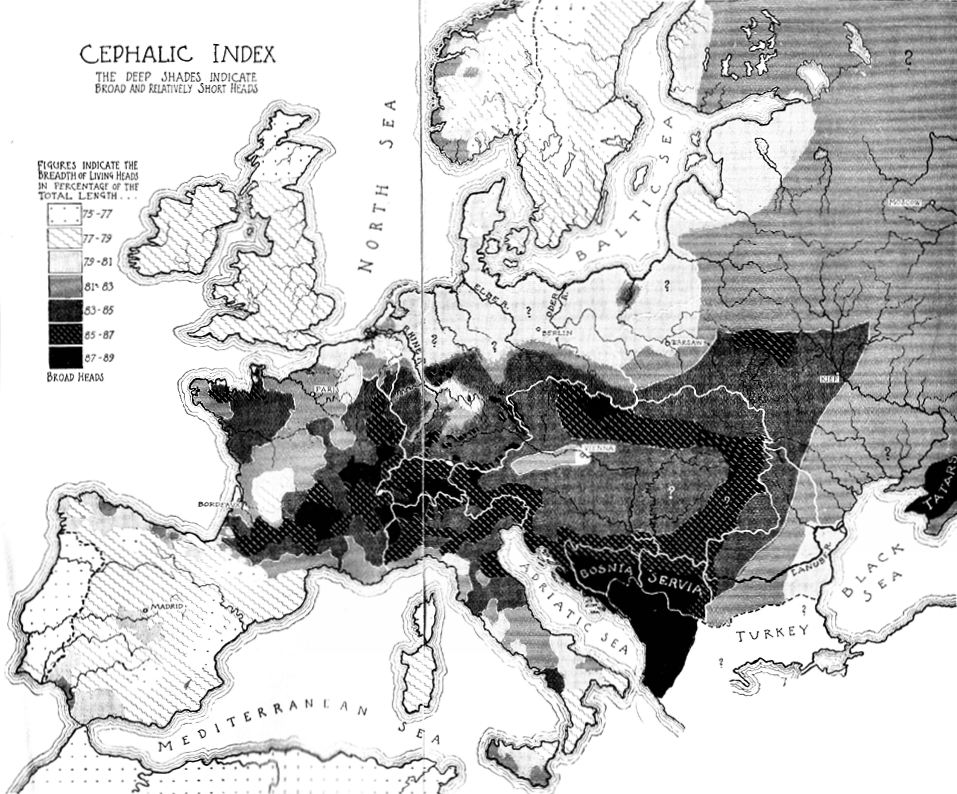 Map by anthropologist/economist William Z. Ripley of the cephalic index of European populations.